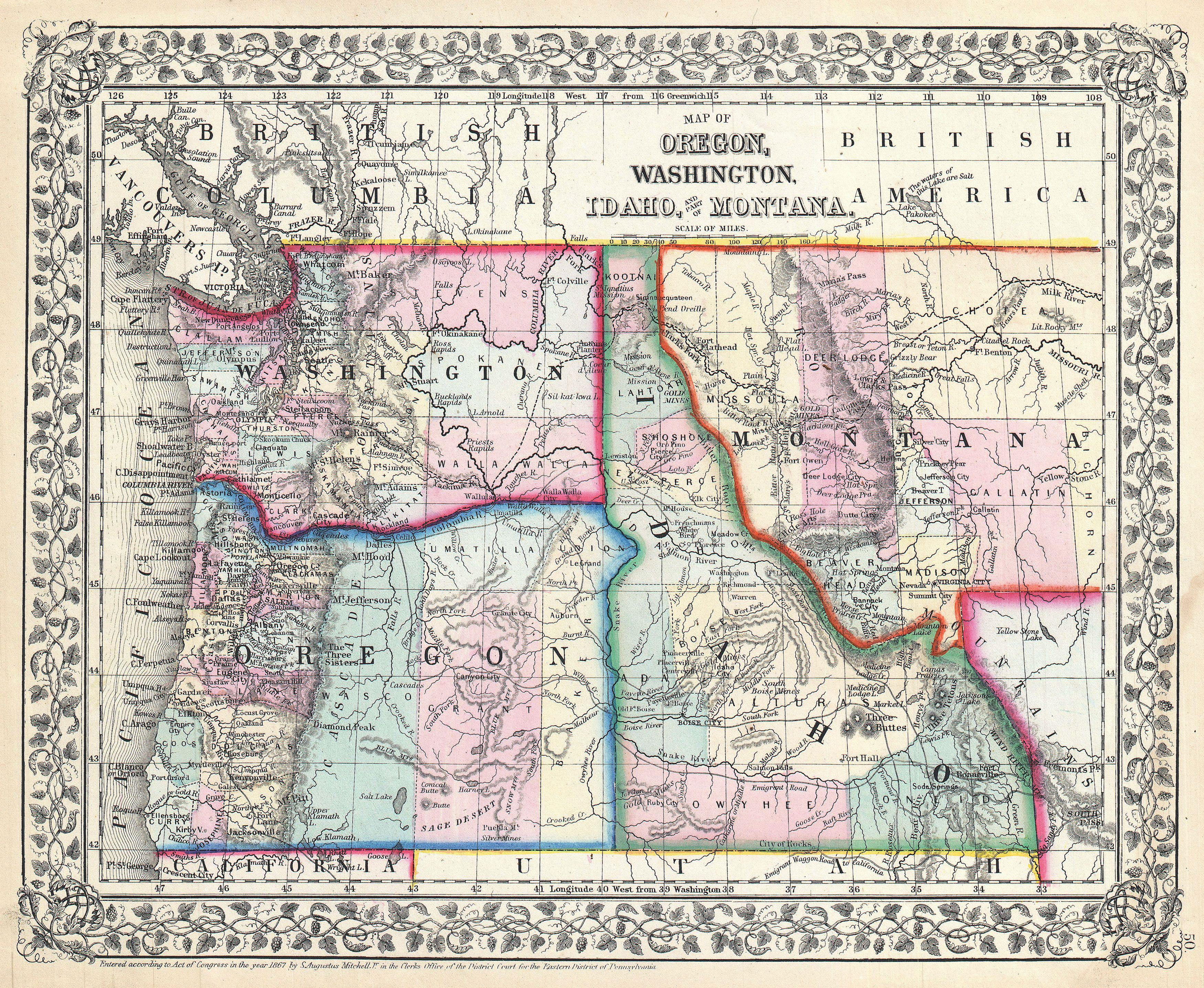 A beautiful example of S. A. Mitchell Junior’s 1867 map of Washington, Oregon, Idaho and Montana. Detailed and color coded at the county level with attention to towns, geographical features, proposed railroads, and cities. The Montana-Wyoming border has yet to be fully resolved. Features the vine motif border typical of Mitchell maps from the 1865-80 period. Prepared for inclusion as plate 50 in the 1867 issue of Mitchell’s New General Atlas . Dated and copyrighted, “Entered according to Act of Congress in the Year 1867 by S. Augustus Mitchell Jr. in the Clerk’s Office of the District Court of the U.S. for the Eastern District of Pennsylvania.